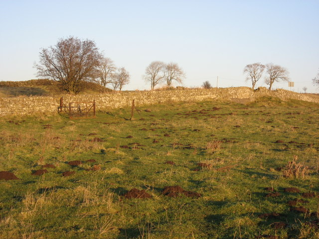 (The site of) Milecastle 31 just east of Brocolitia